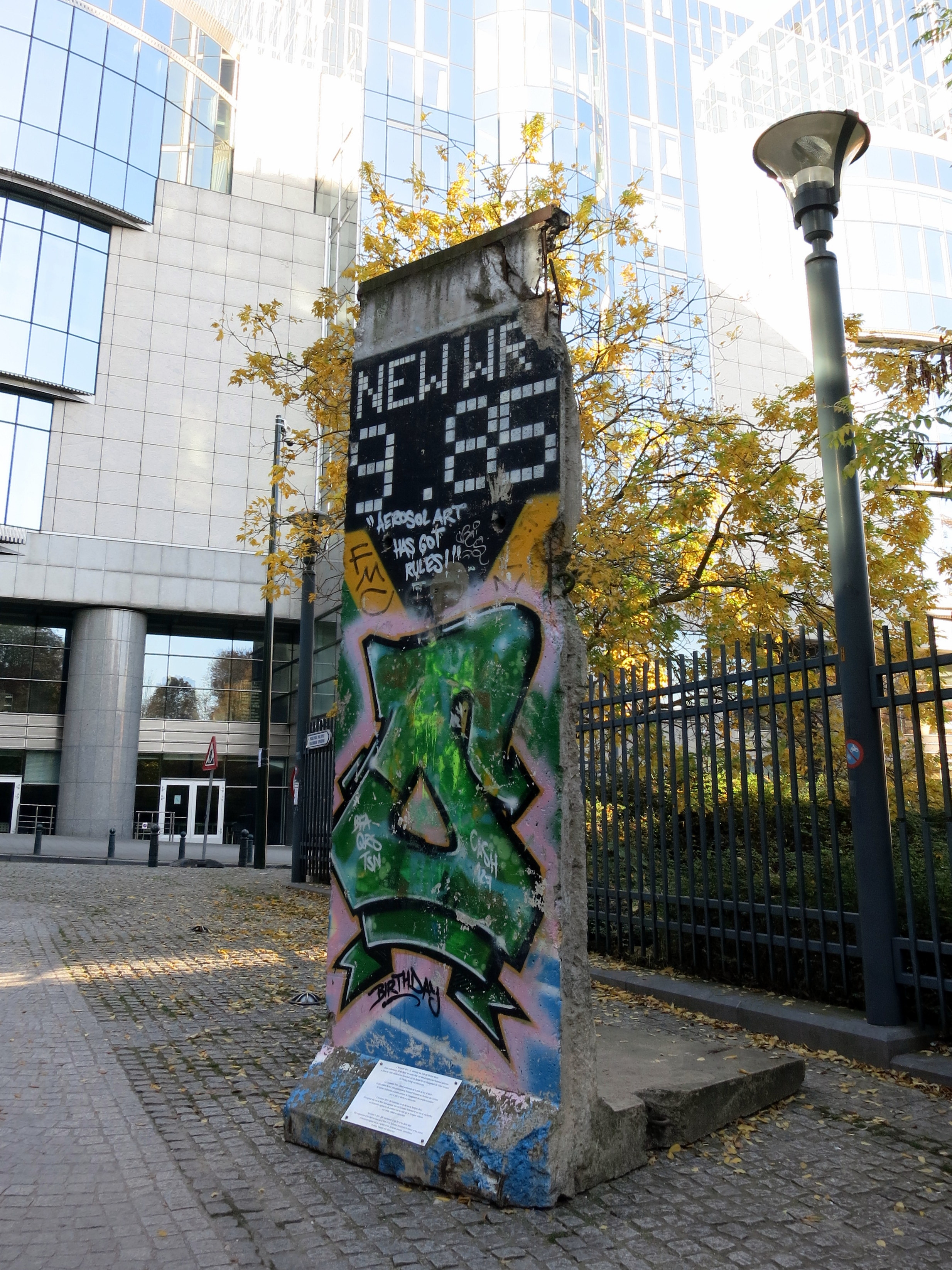 A section of the Berlin Wall on display near the European Parliament building in Brussels. It was placed on display in November 2014 to mark the 25th anniversary of the fall of the wall.